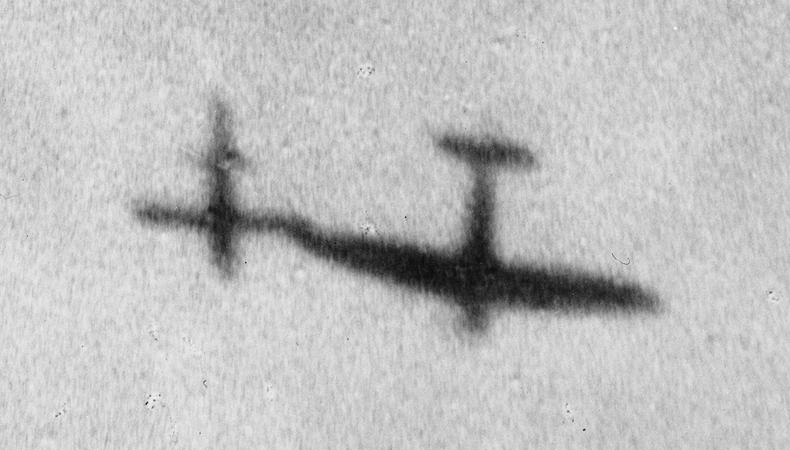 Seen in silhouette, a Royal Air Force Supermarine Spitfire manoeuvres alongside a German V-1 flying bomb in an attempt to deflect it from its target.